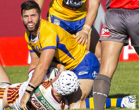 2015 City vs Country Origin match at McDonalds Park in Wagga Wagga.